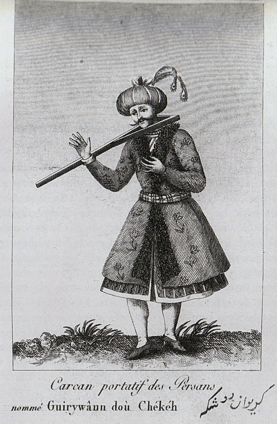 Karkan: the tool used for punishment of state criminals; Safavid Persia.